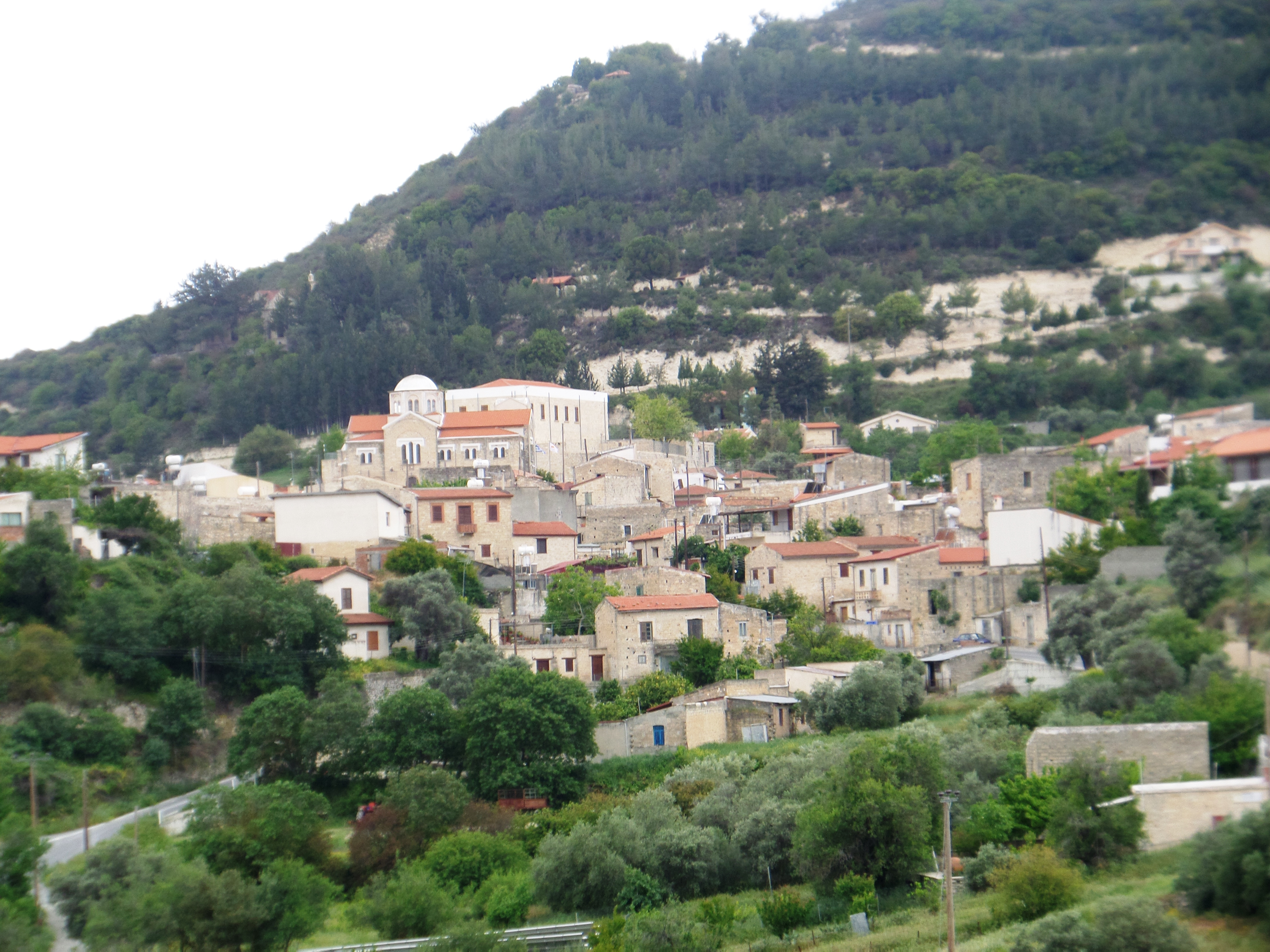 Το χωριό Δορά.